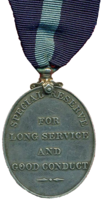 British award for 15 years service in the Special Reserve, awarded 1908-30